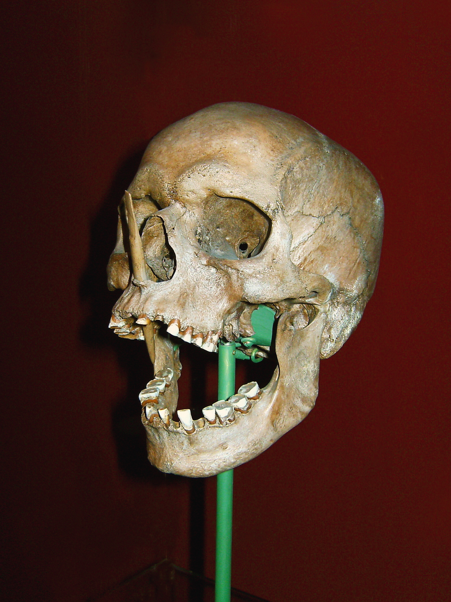 Skull of bog body Porsmose Man with arrow head in the nose, a joung neolithing bog body found in 1946 near Næstved, Seeland, Denmark.